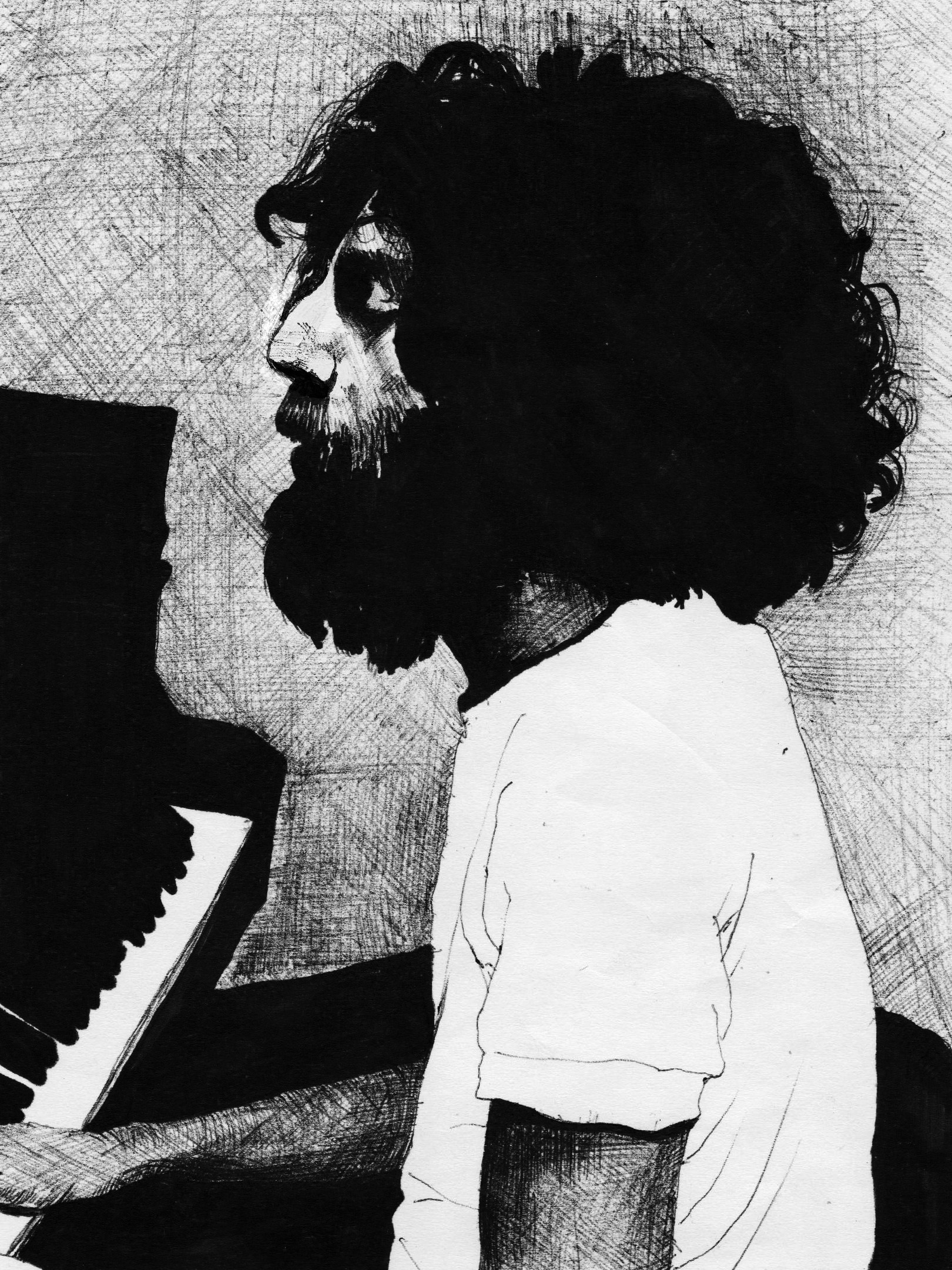 Bill Fay pen and ink by Erica Parrot